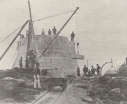 Dubh Artach lighthouse under construction